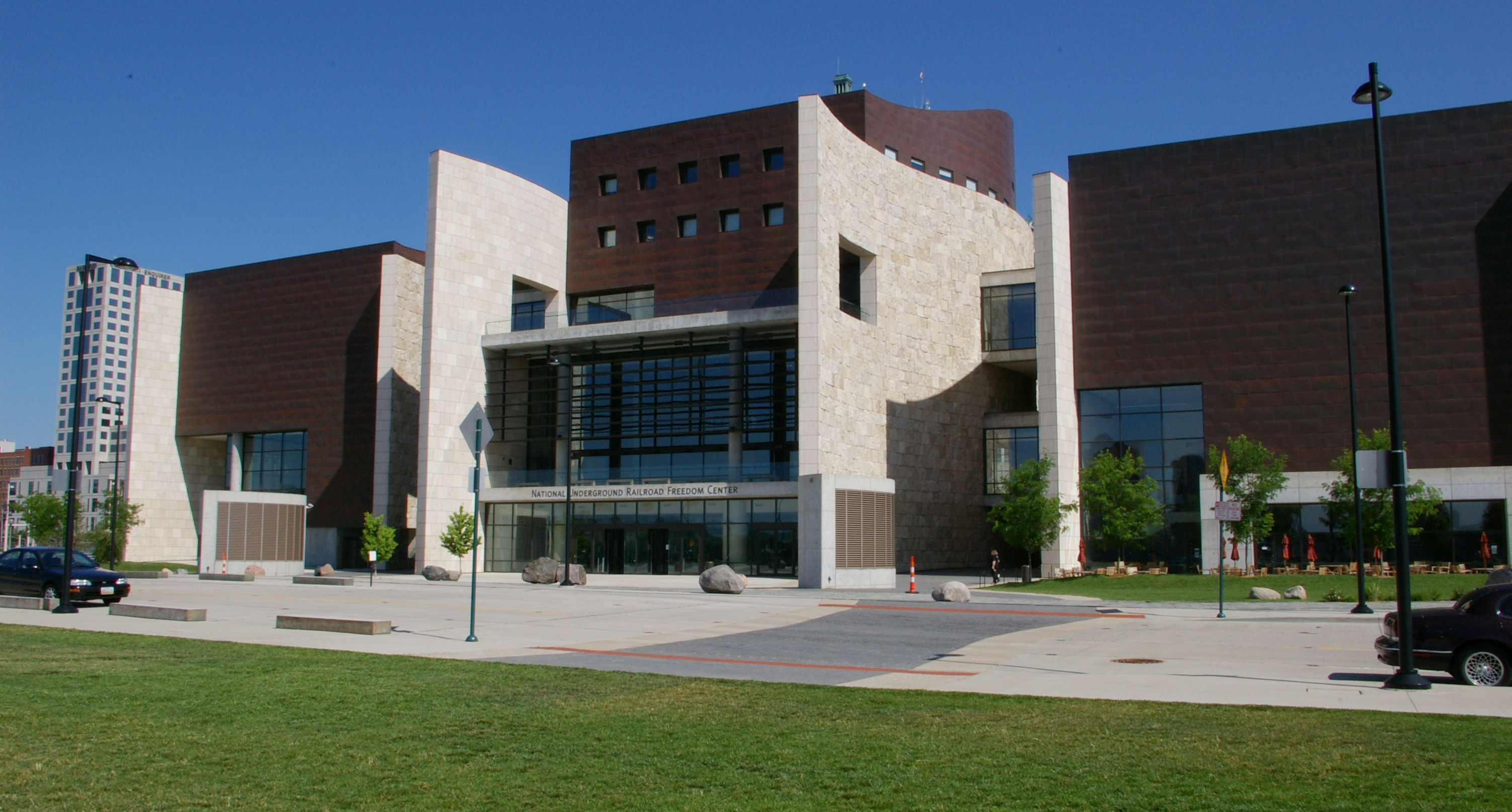 I took this photograph of the National Underground Railroad Freedom Center in Cincinnati, Ohio on Sunday, June 10, 2007 with a Pentax K100D Digital SLR camera. MamaGeek (talk/contrib) 00:47, 14 June 2007 (UTC)